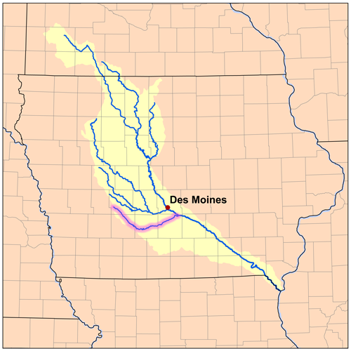 Map higlighting the Middle River within the Des Moines River watershed in Iowa.